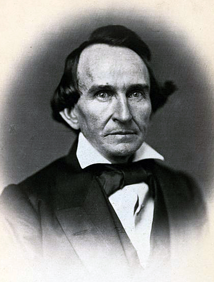 David Settle Reid, US Senator from North Carolina and Governor of that state